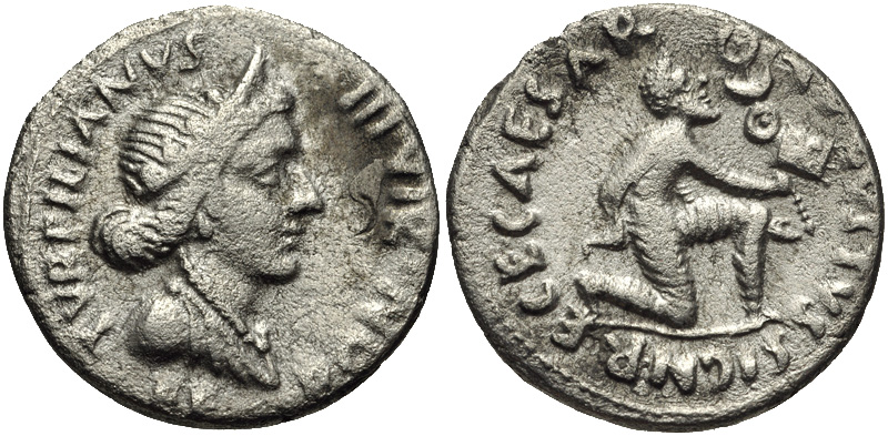 Augustus. 27 BC-AD 14. AR Denarius (18mm, 3.67 g, 3h). Rome mint. Publius Petronius Turpilianus (triumvir monetalis) i.e. moneyer. Struck 19/8 BC. Draped bust of Feronia right, wearing stephane Parthian kneeling right, extending standard to which is attached a vexillum marked X. RIC I 288; RSC 484. VF, porous. This type commemorates Augustus' diplomatic triumph in securing the restoration of the legionary standards which had been lost by Crassus and Antony in the disastrous campaigns of 53 and 36 BC. Many of the issues of this period commemorate this significant event.